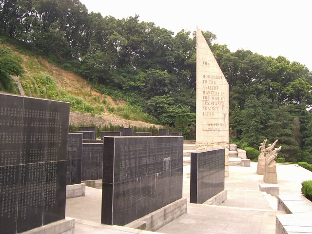 航空烈士公墓 牌坊 2004年6月5日撮影 撮影者:権作Monument to the Aviator Martyrs in WWII, Nanjing 参照：